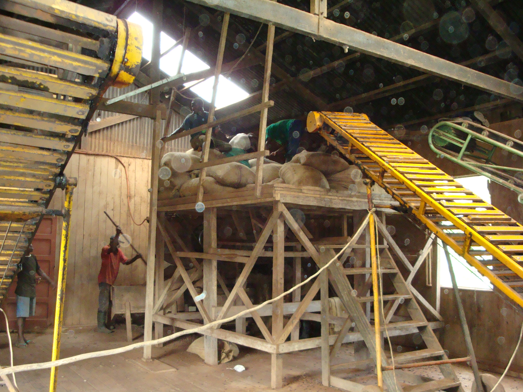 Sampaka Cacao Factory This is an image with the theme "Africa on the Move or Transport" from: Equatorial Guinea